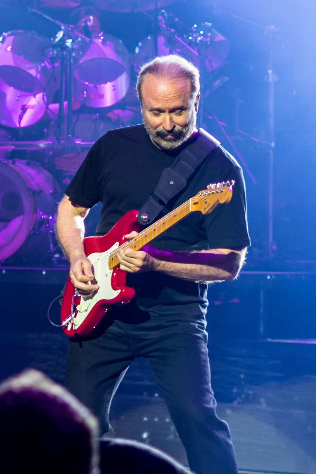 Deryl Stuermer at Royal Albert Hall